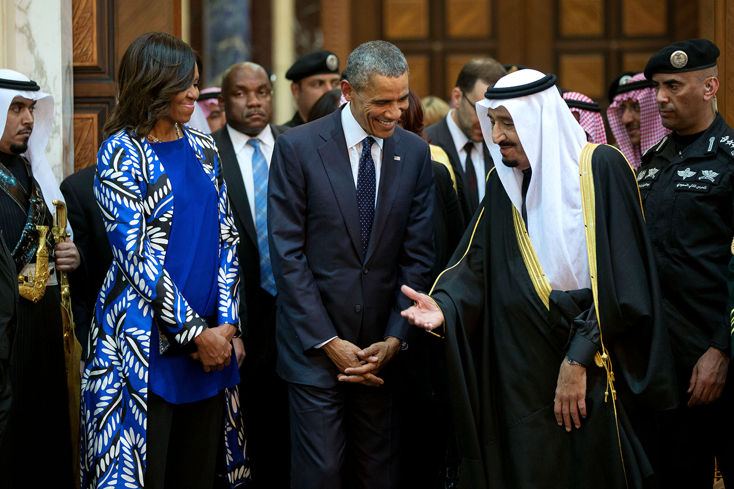 President Barack Obama and First Lady Michelle Obama walk with King Salman bin Abdulaziz of Saudi Arabia at Erga Palace in Riyadh, Saudi Arabia, Jan. 27, 2015.